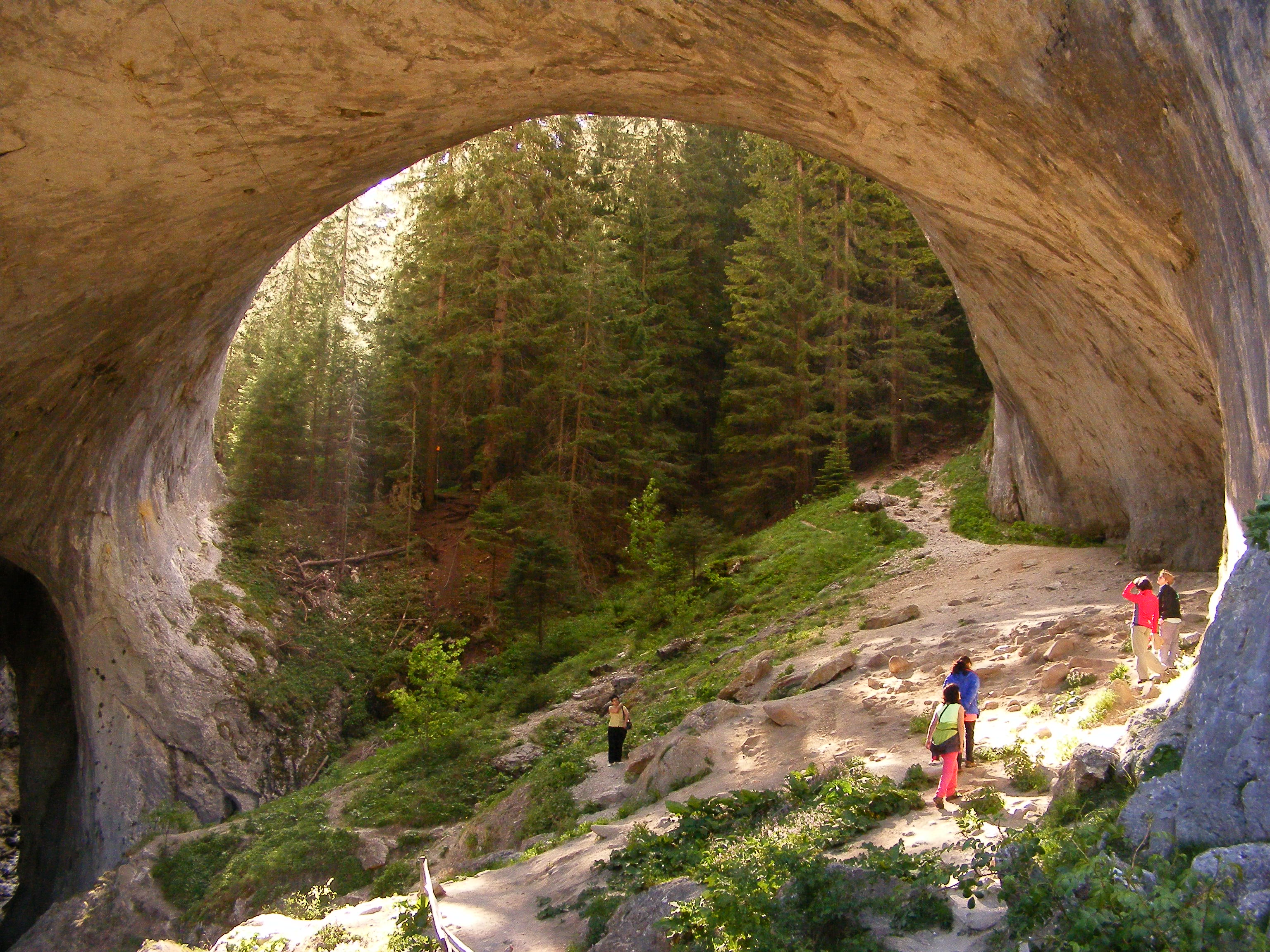 Wonderful Bridges, Rhodope Mountains, Bulgaria